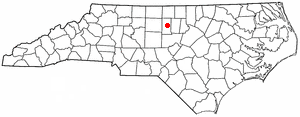 Category:North Carolina Dot Maps